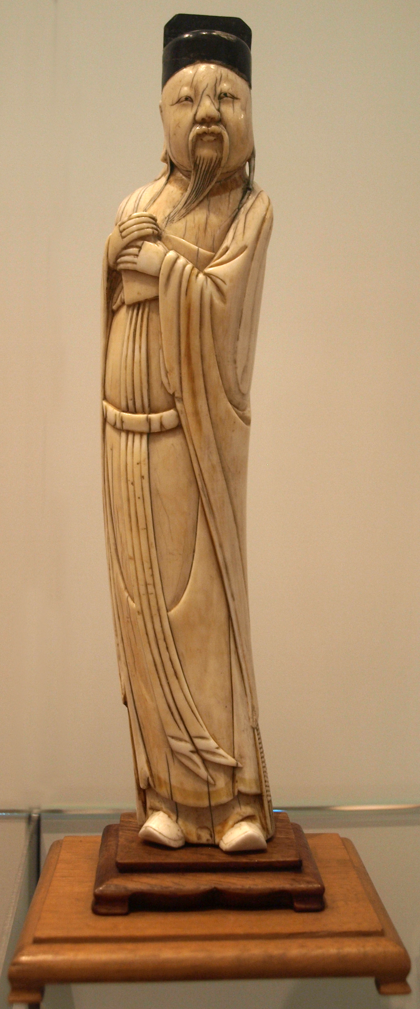 Ivory figurine of Wen Chang, the "God of Literature". Circa 1550-1644, Ming dynasty. Cat #925x60.3. From the Joey and Toby Tanenbaum Gallery of China at the Royal Ontario Museum.